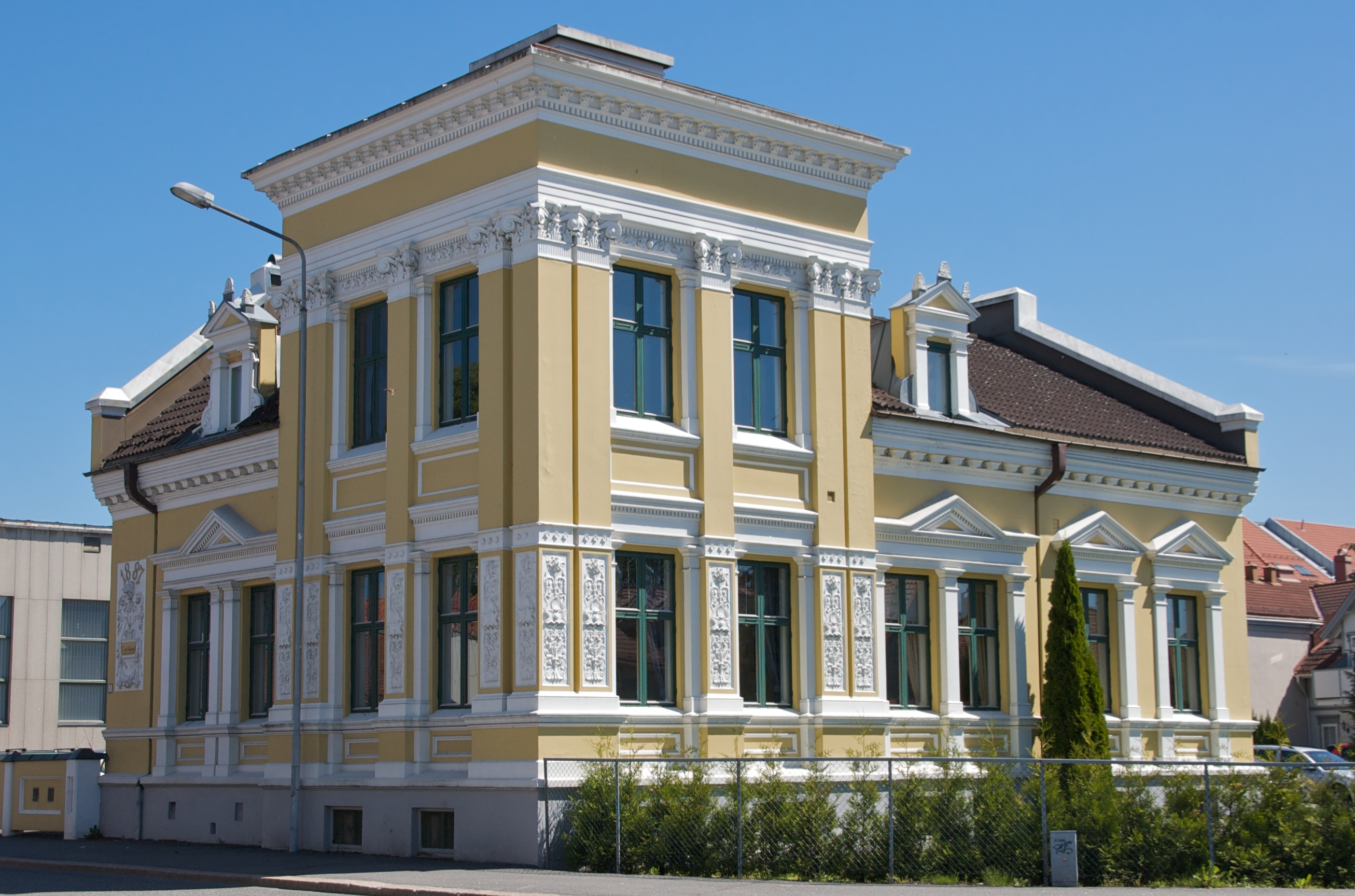 Building in Skien, Norway. Address: Cort Adelersgate 1.